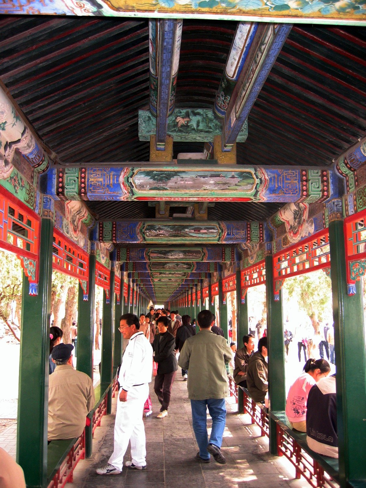 Photograph of the Long Corridor on the grounds of the Old Summer Palace in in Beijing, China.